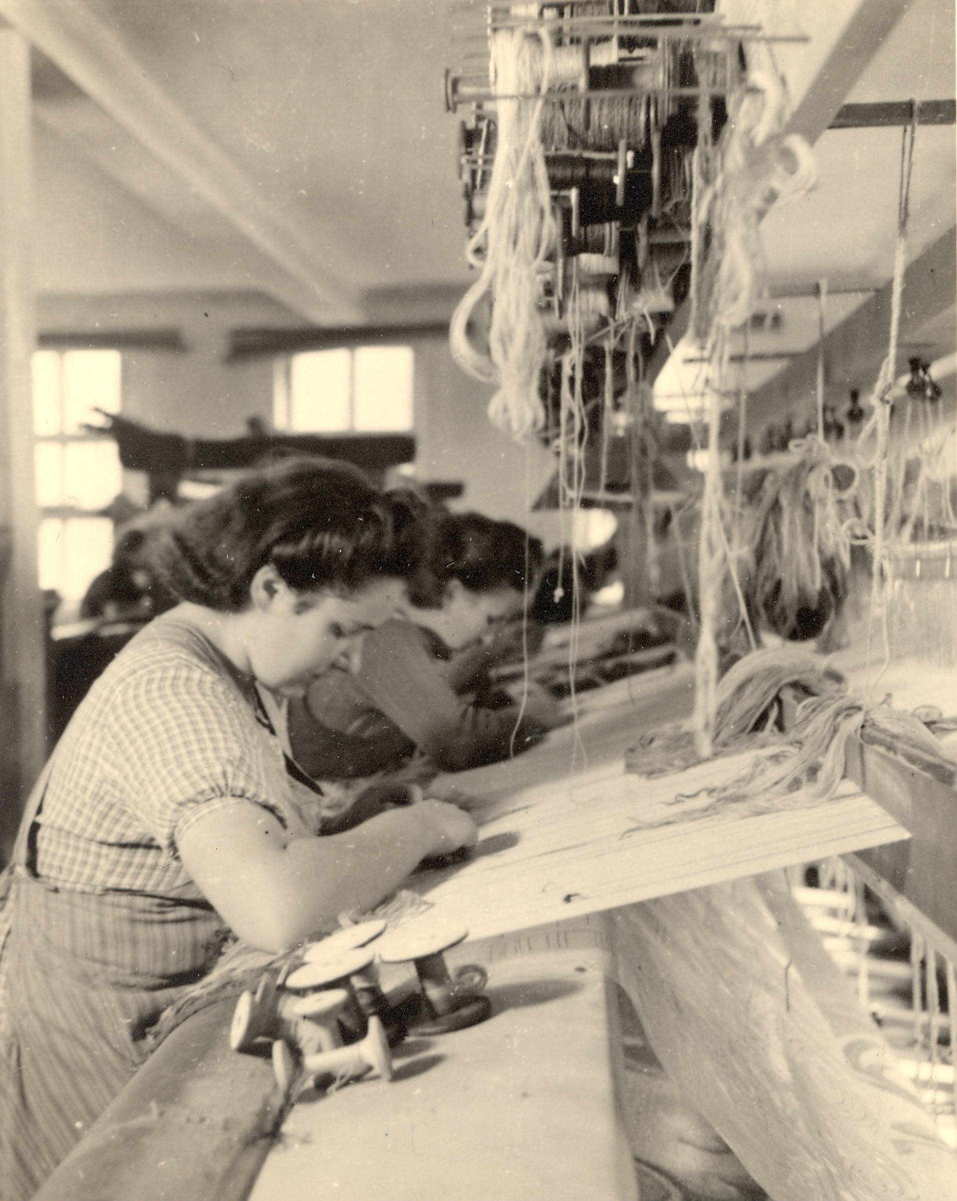 Tapestry Manufactory Sauermilch in Oberweid